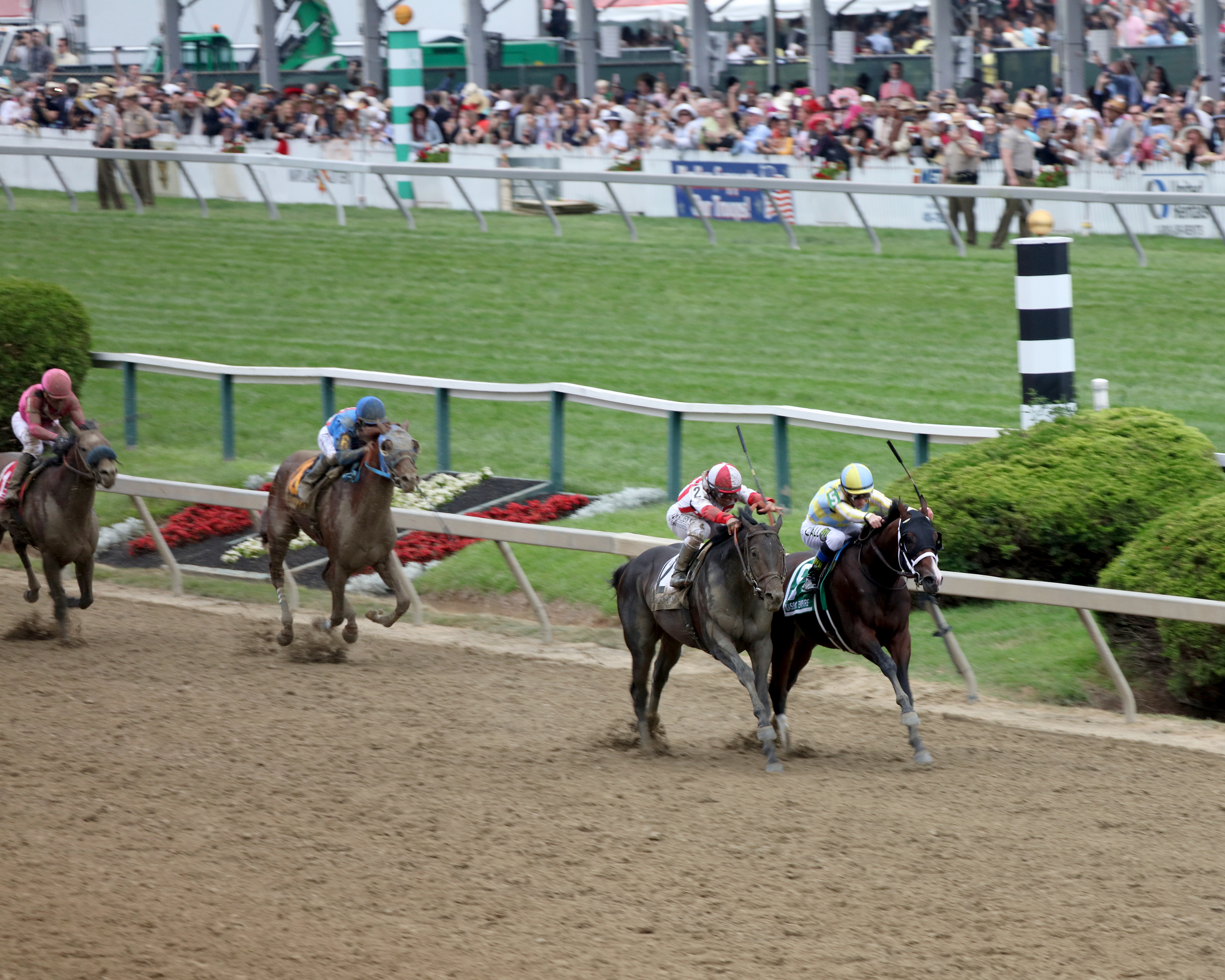 Cloud Computing and Classic Empire. Governor Hogan, Lt. Governor Rutherford, First Lady Yumi Hogan Attend The 142nd Preakness by staff at Pimlico Race Track 5201 Park Heights Ave Baltimore, Maryland 21215 Photos from the 2017 Preakness Stakes. Governor Hogan, Lt. Governor Rutherford, First Lady Yumi Hogan attend the 142nd Preakness. Photos were taken by staff at Pimlico Race Track (5201 Park Heights Ave Baltimore, Maryland) on May 20, 2017.